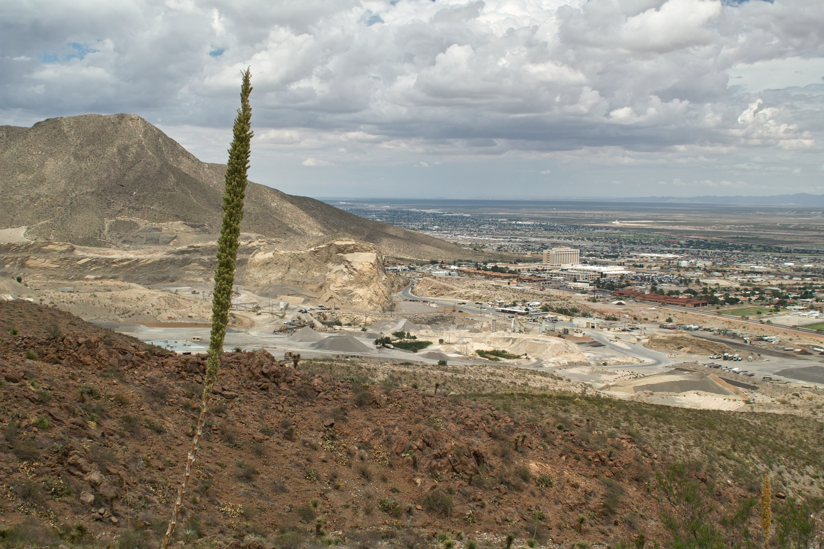 A view of Sugarloaf Mountain (left) and William Beaumont Army Medical Center (largest building, right) from El Paso's Wyler Aerial Tramway lower station.